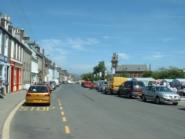 Wigtown main street. Looking north east, towards the Town Hall. Wigtown now describes itself as Scotland's National Book Town and there are indeed quite a lot of bookshops. It has quite a way to go to catch up with Hay on Wye, though.